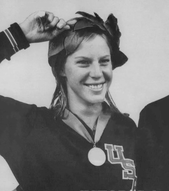 1967 Press Photo Sue Gossick and Micki King, Pan-American Games - noo24266